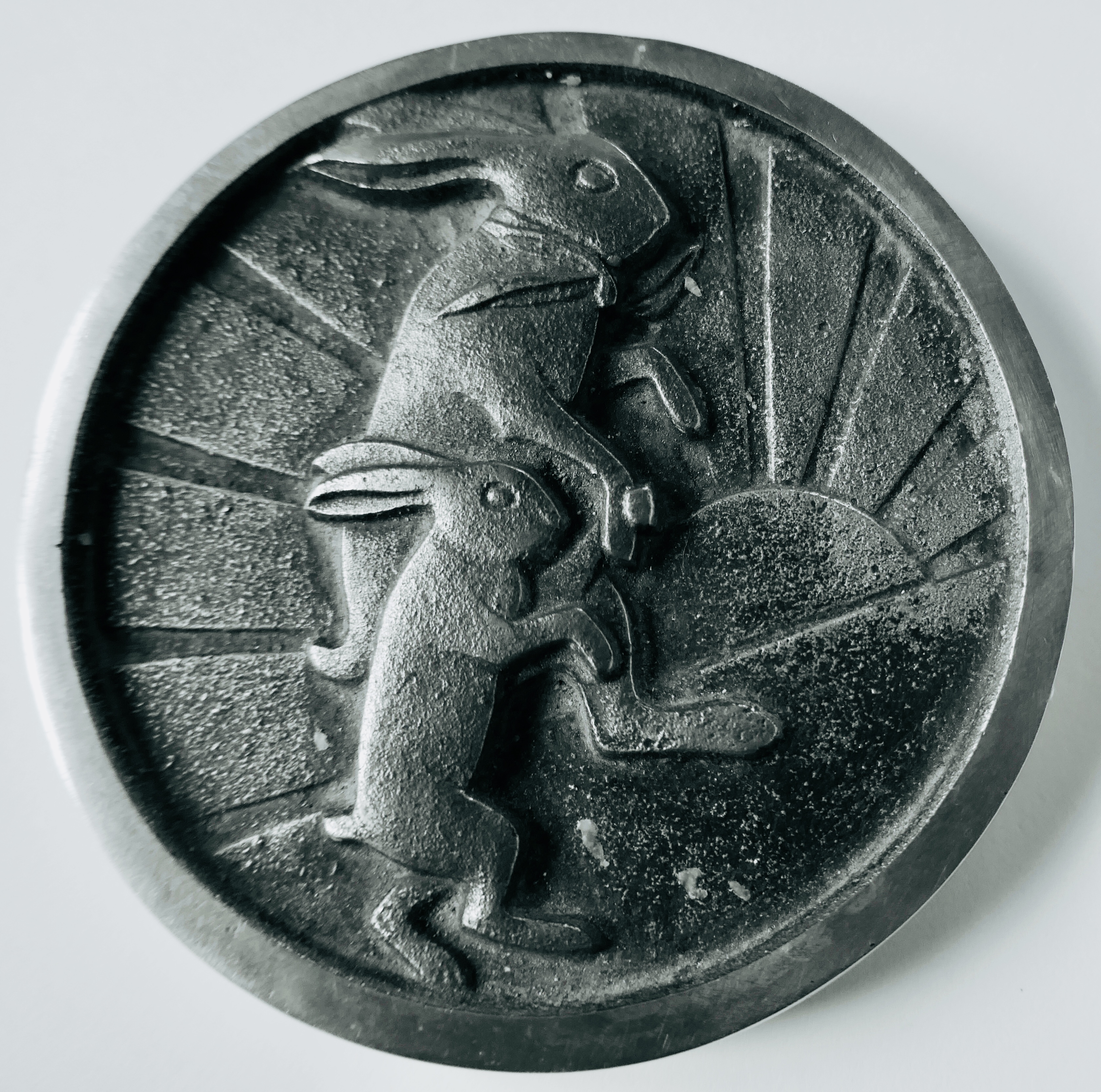 "Hare and son" before rising sun. Design of a new trademark of Franz Boeres after the First World War for Haas & Sohn Neuhoffnungshütte. Collection Villa Haas (Sinn).